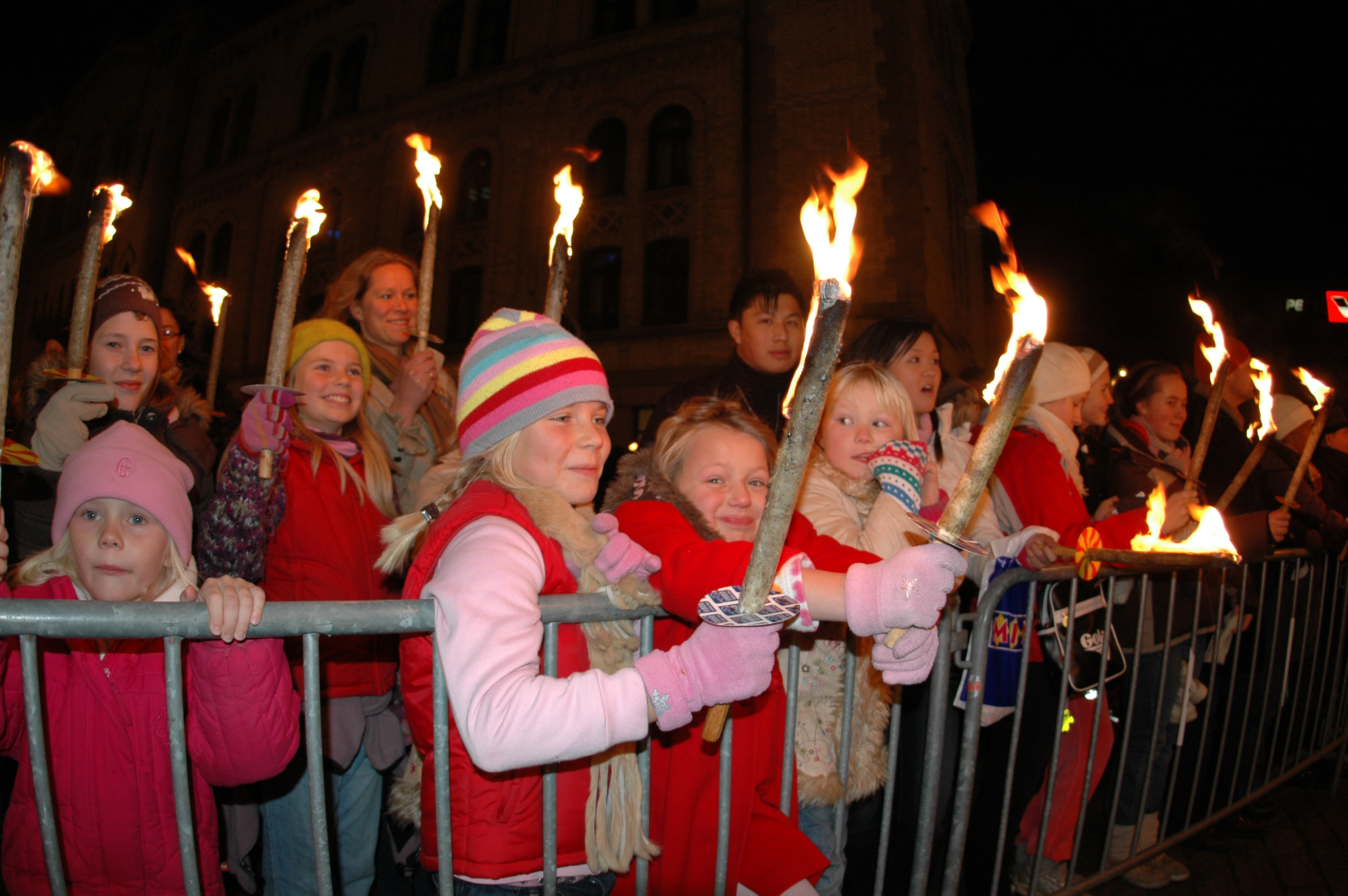 Norwegians gather to greet Nobel Peace Prize winner Muhammad Yunus in 2006 photo D Ramey Logan